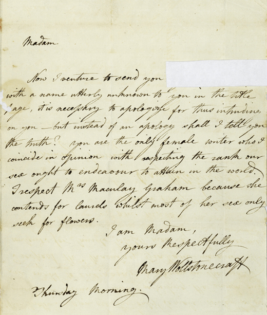 Autograph letter signed by Mary Wollstonecraft to Catharine Macaulay, December 16 or 23, 1790; draft of Macaulay’s reply on verso NYPL, The Carl H. Pforzheimer Collection of Shelley and His Circle "In the only known correspondence between Mary Wollstonecraft to Catharine Macaulay Graham, Wollstonecraft wrote that she respected the elder writer “because she contends for laurels whilst most of her sex only seek for flowers.” Wollstonecraft’s letter accompanied her pamphlet vindicating “the rights of men” against the conservative politician Edmund Burke’s eloquent attack on the Revolution. Graham’s reply is drafted on the back of Wollstonecraft’s letter, and apparently she sent her letter to Wollstonecraft along with a copy of an earlier pamphlet intervention of her own contra Burke. The two appear never to have met, however, and Catharine Macaulay Graham died six months later." (New York Public Library)